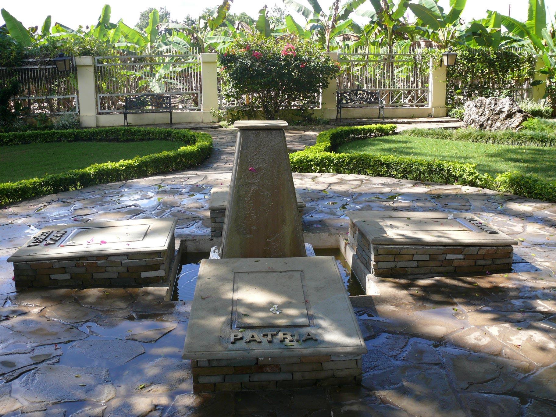 The mausoleum containing the remnants of the Mirabal Sisters Minerva, Patria and Maria Teresa, as well as Minerva's husband Manolo. In Salcedo, Dominican Republic, in the yard of the Mirabal Museum.